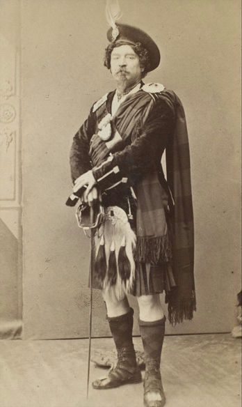 Carte de visite photograph of actress Alice Marriott (1824-1900), as Hamlet at Sadlers Wells Theatre, London.